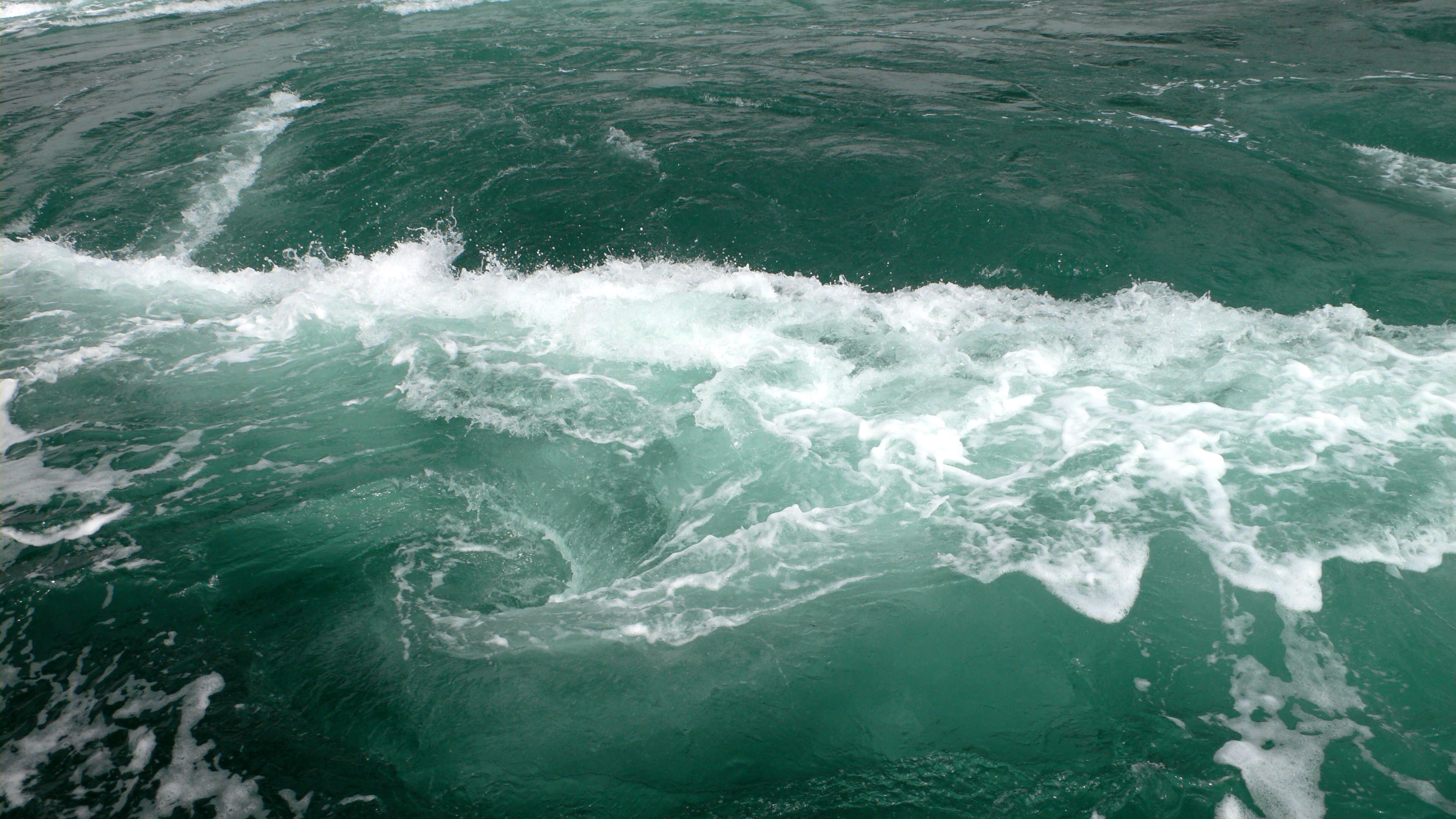 A whirlpool at the coast of Japan.